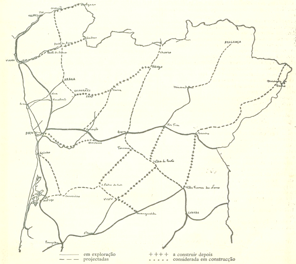 Map of the complementary projects of the Rede Ferroviaria ao Norte do Mondego (Railway Network on North of the Mondego River), in Portugal, decreted on the 15th February 1900. Among the projects, there was the Alto Minho railway, from Braga to Melgaço via Ponte da Barca and Monção; the Vale do Lima Railway, from Viana do Castelo to Lindoso via Ponte da Barca; the Braga to Guimarães Railway; the continuation of the Guimarães Railway to Vidago, via Fafe and Cavez; the Tâmega Railway, from Livração to Cavez; the Douro Marginal Railway, that would connect Rio Tinto to Mosteirô; the Corgo Railway, from Peso da Régua to the Spanish border, serving Vidago and Chaves; the continuation of the Tua Railway from Mirandela to Braganza; the Sabor Railway, from Pocinho to the border via Miranda do Douro; the Côa Railway, also from Pocinho, to Vila Franca das Naves; the Régua to Vila Franca das Naves railway, passing Tarouca and Vila da Ponte, where it would cross with the Foz Tua do Viseu Railway; the Vouga Railway, from Viseu to Espinho, with branches to Aveiro, Tarouca and Mangualde; the Leixões Railway; and the continuation of the Alfândega branch to Leixões. This image was published on the Gazeta dos Caminhos de Ferro magazine no. 372, of the 16th June 1903, and scanned by the Hemeroteca Municipal de Lisboa. Esta imagem foi publicada na Gazeta dos Caminhos de Ferro n.º 372, de 16 de Junho de 1903, e digitalizada pela Hemeroteca Municipal de Lisboa.